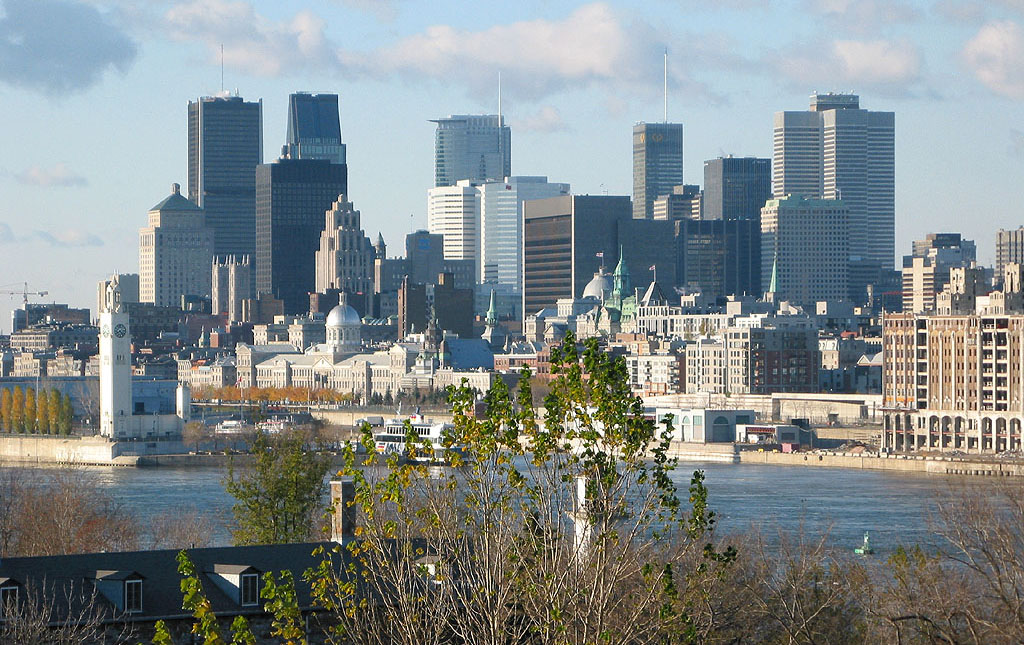 View of downtown Montreal.